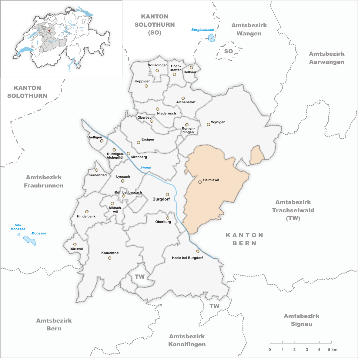 Municipality Heimiswil